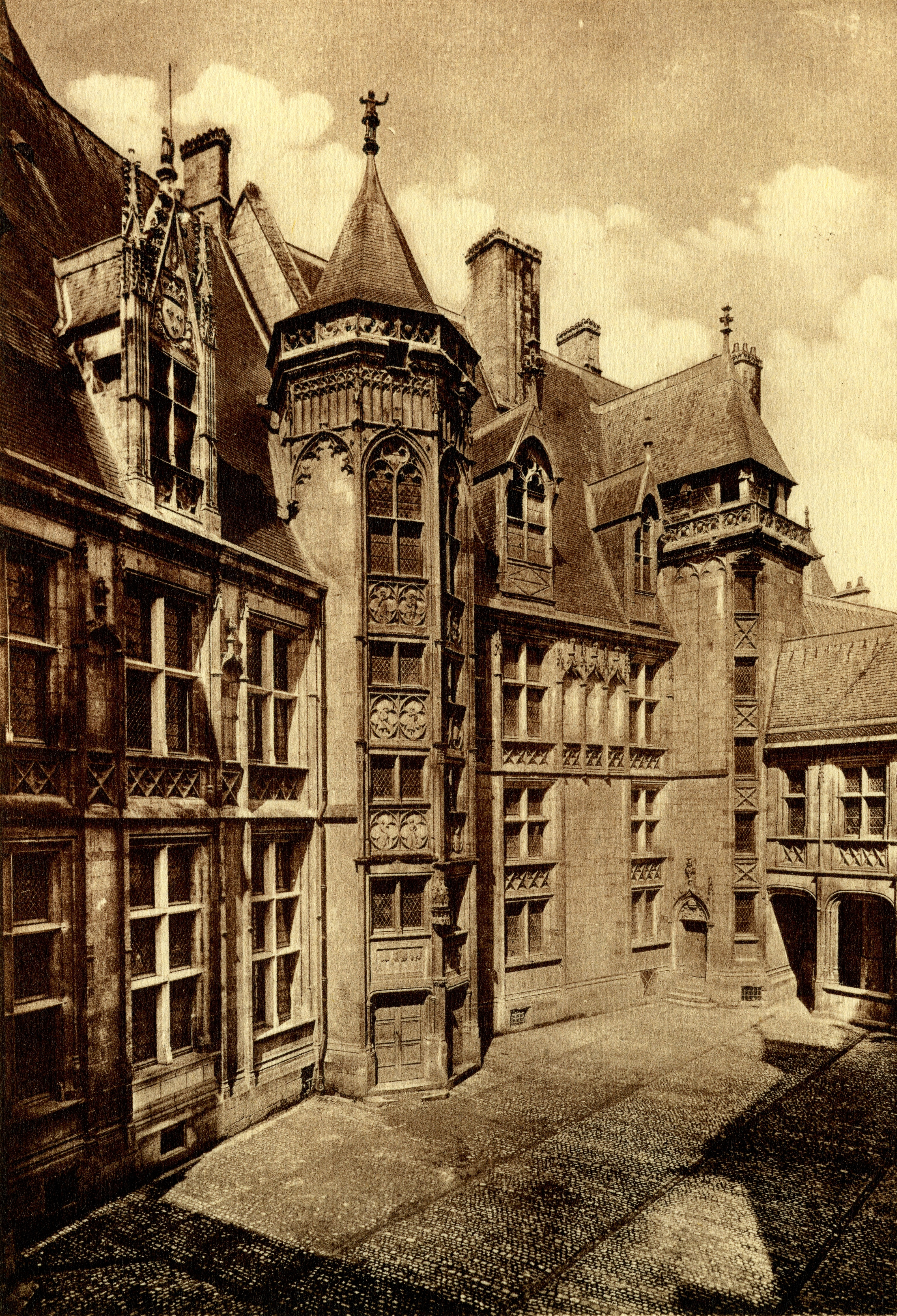 Bourges, France. Court of Palais Jacques-Cœur. Heliogravure. Publishing house Michel Lévy frères (LL).